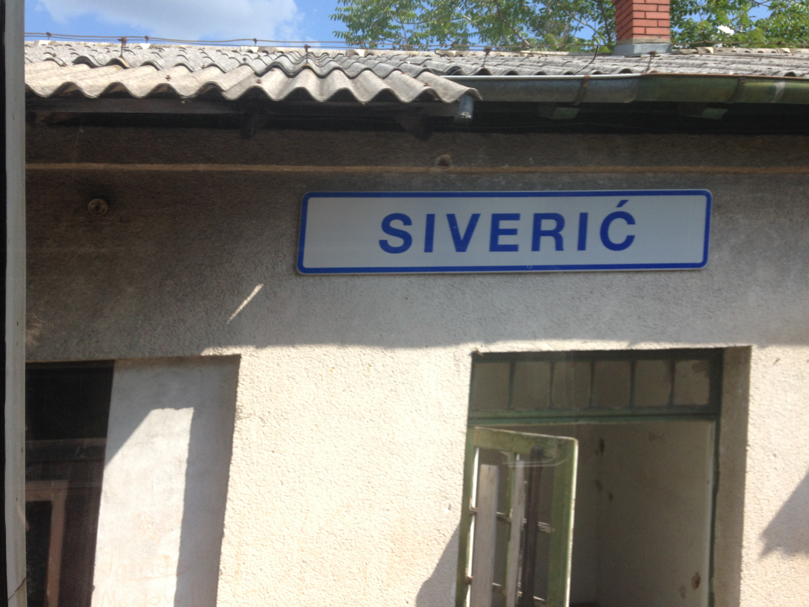 Station Siverić